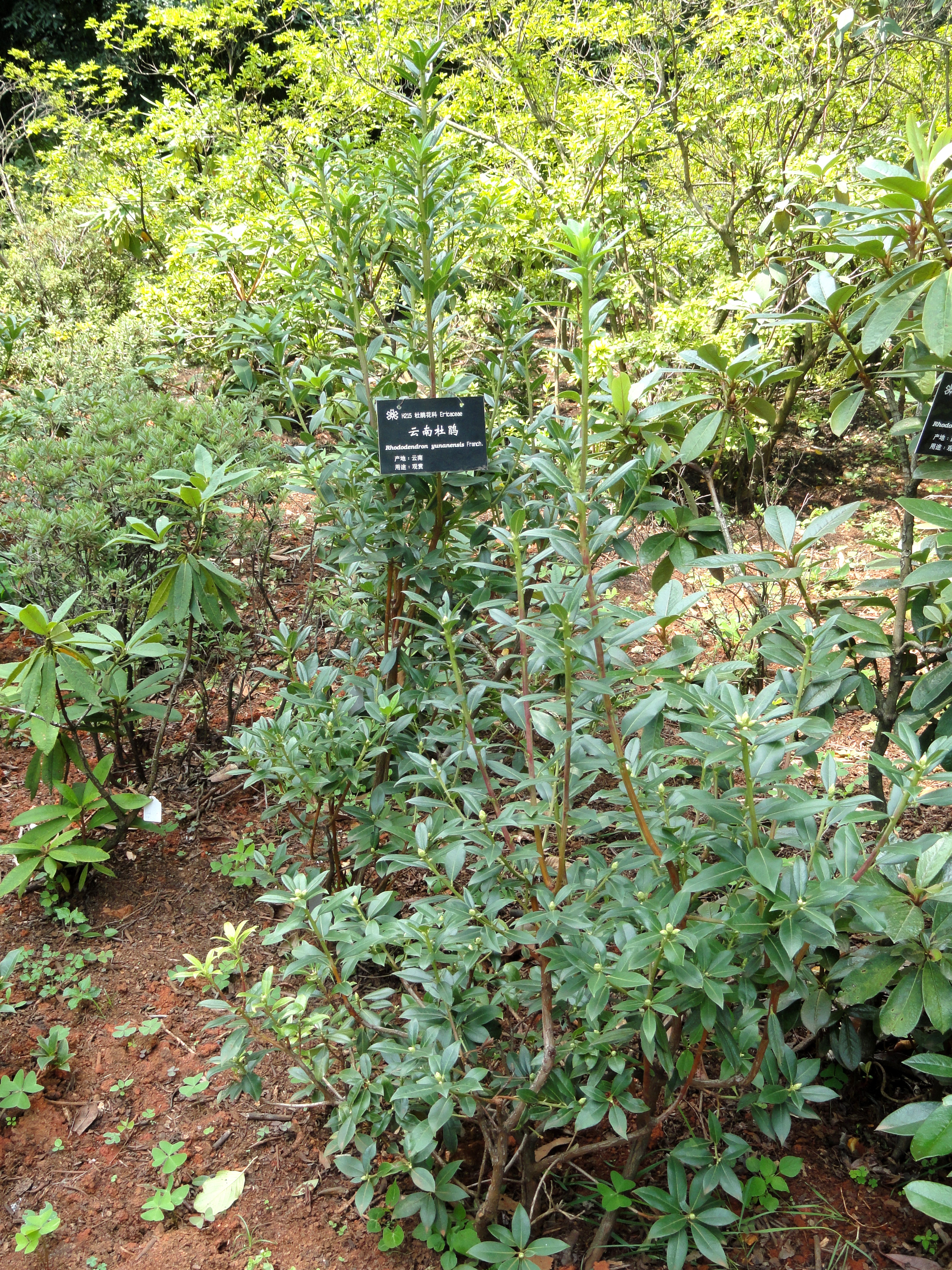 Rhododendron specimen in the Kunming Botanical Garden, Kunming, Yunnan, China.